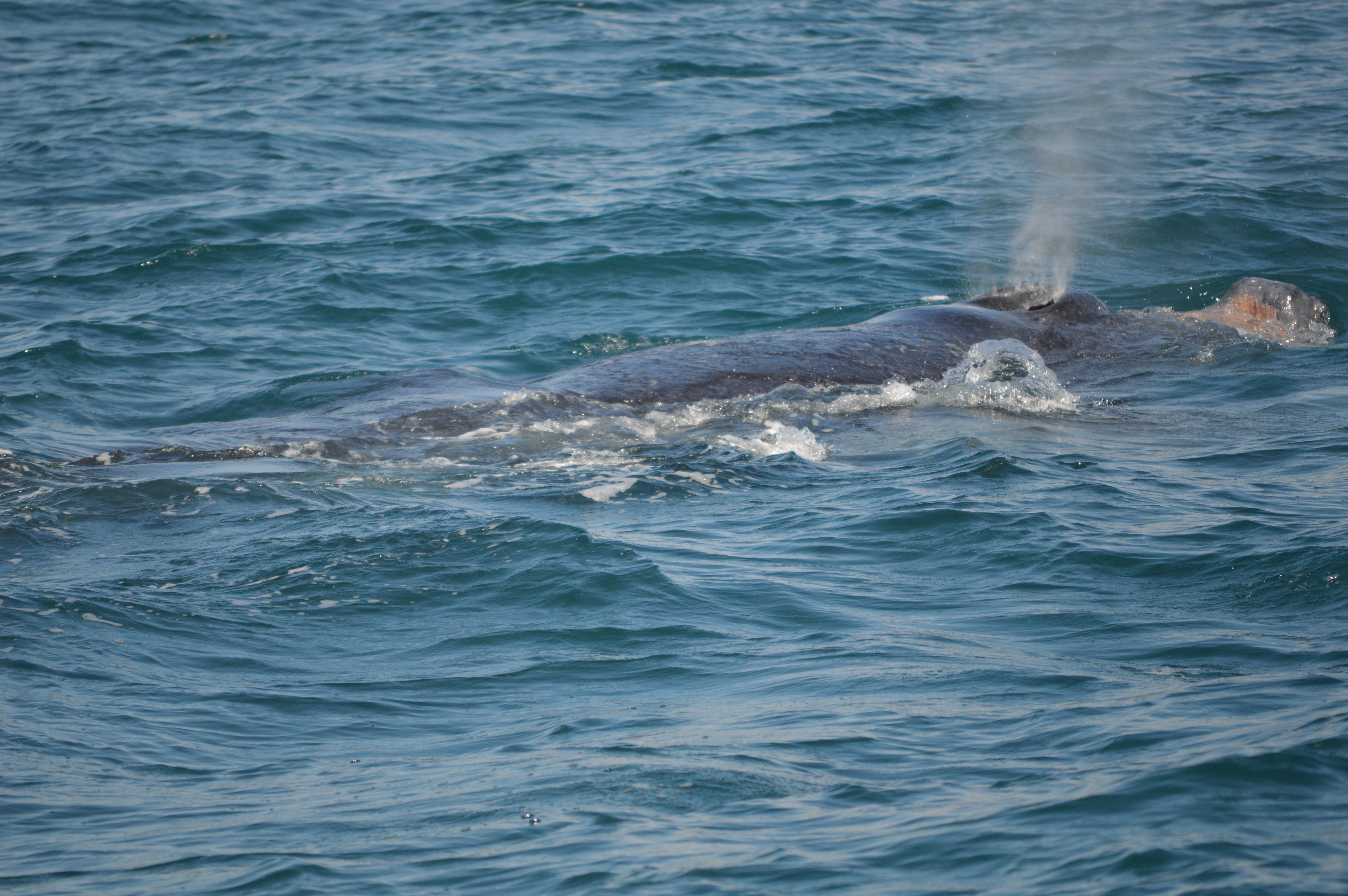 Whales off Rincón de Guayabitos, Nayarit, Mexico